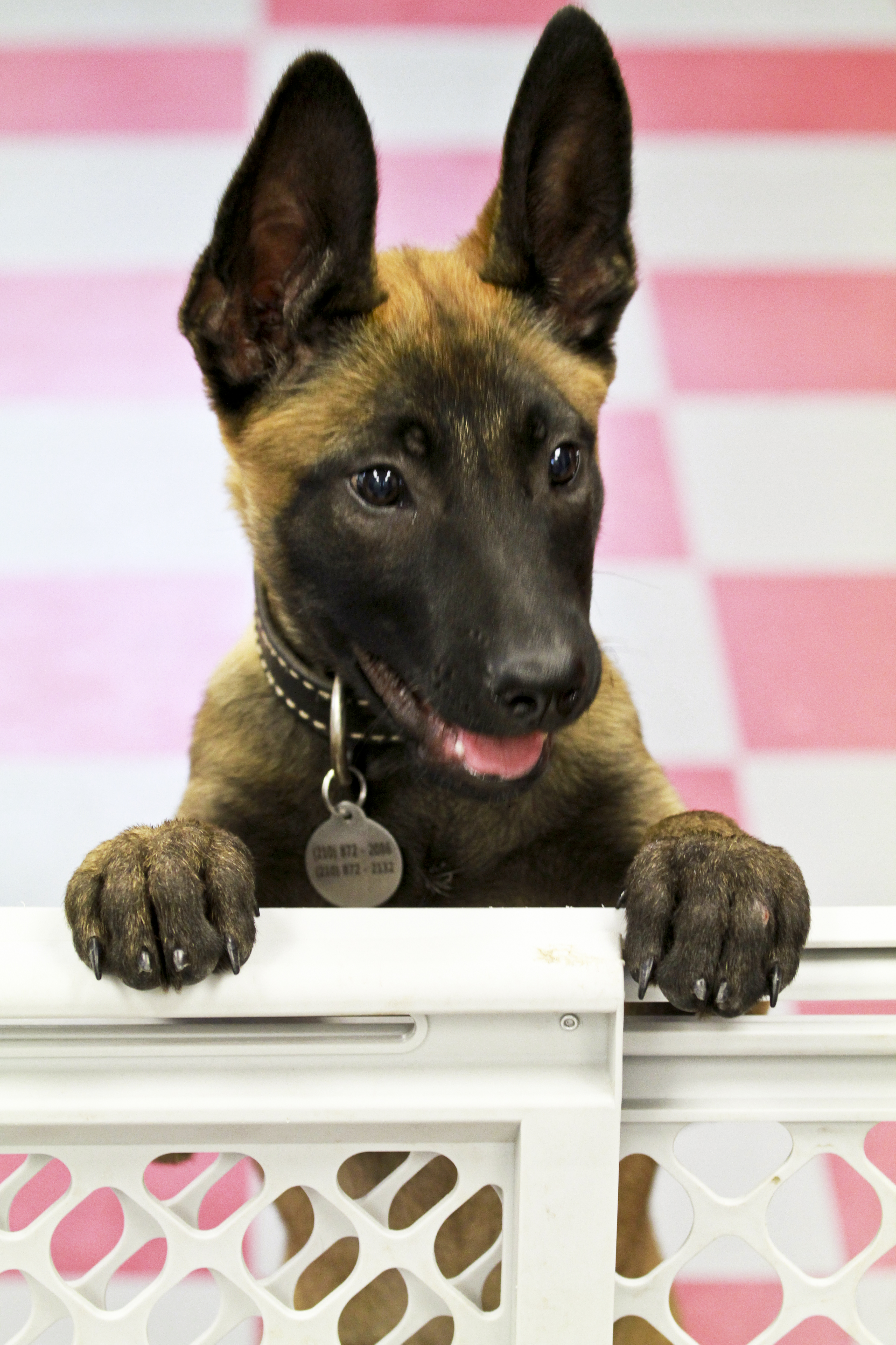 Donja, an older pup, watches younger puppies at the Defense Department's Military Working Dog Breeding Program on Lackland Air Force Base in San Antonio.